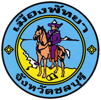 Official Seal of Pattaya